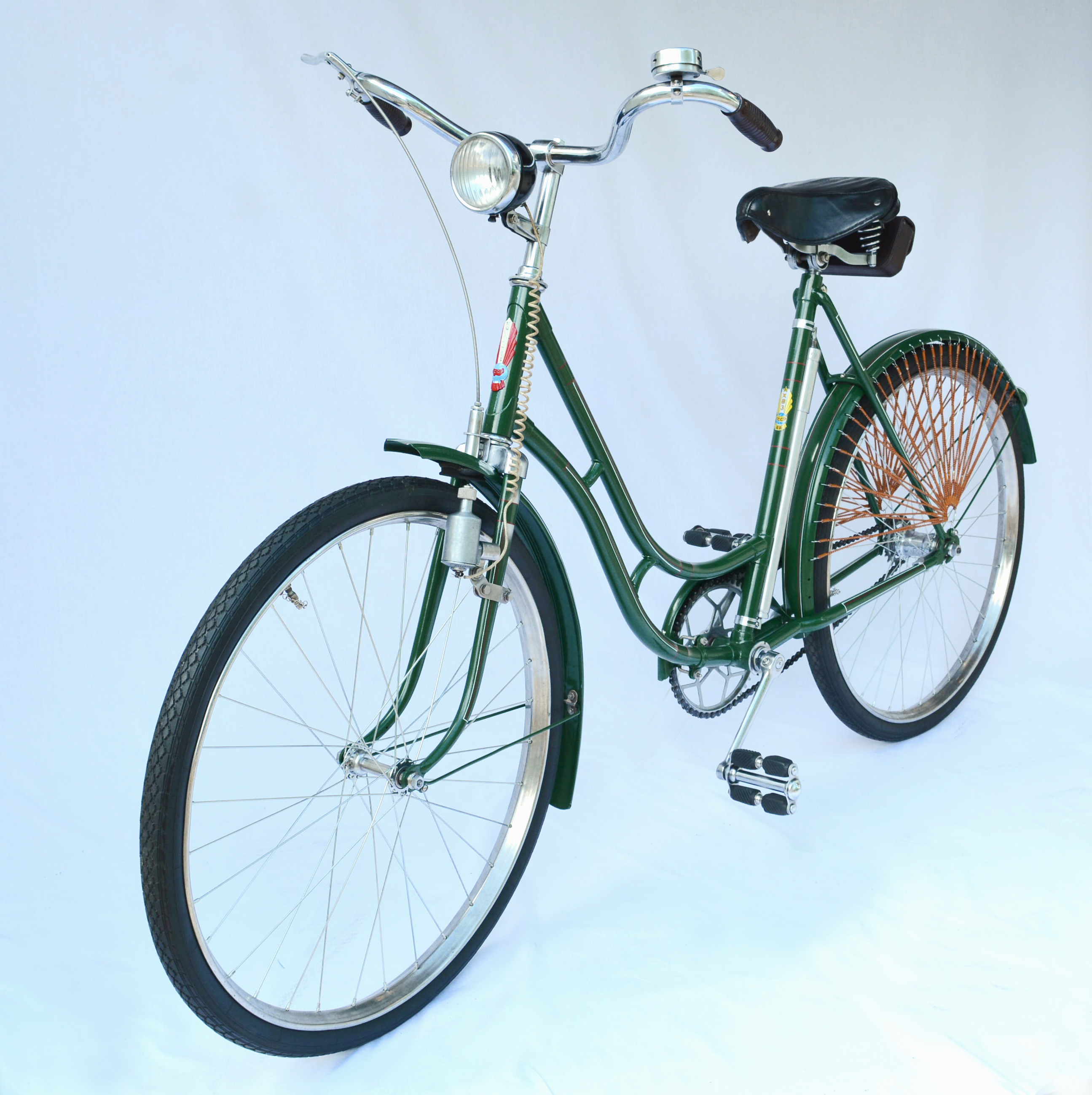 USSR bicycle V-22 (Kharkiv bicycle factory) 1955